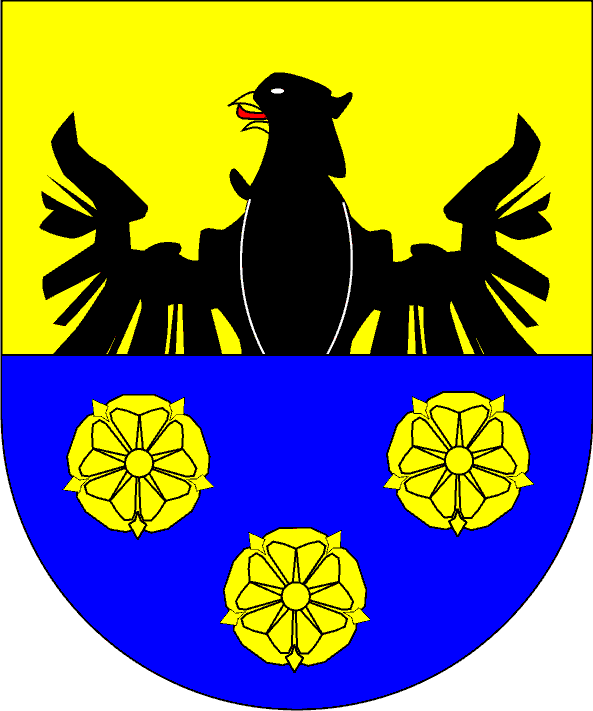 coat of arms